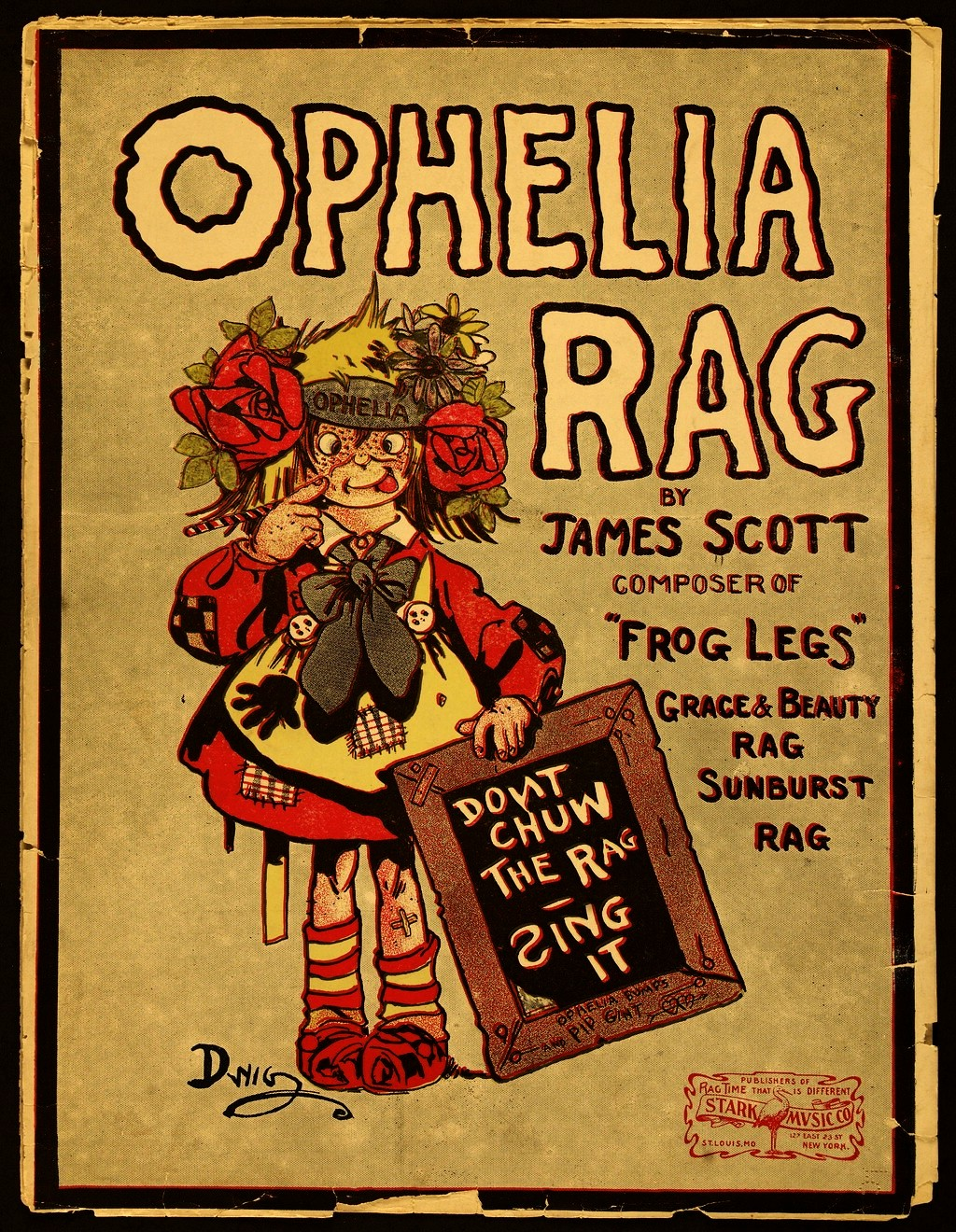 Ophelia Rag, 1910